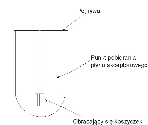 dessolution test machine